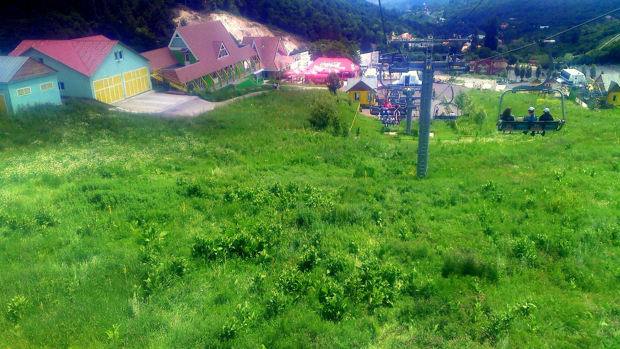 Tsaghkadzor cableway, Kotayk, Armenia, 1 May 2014.